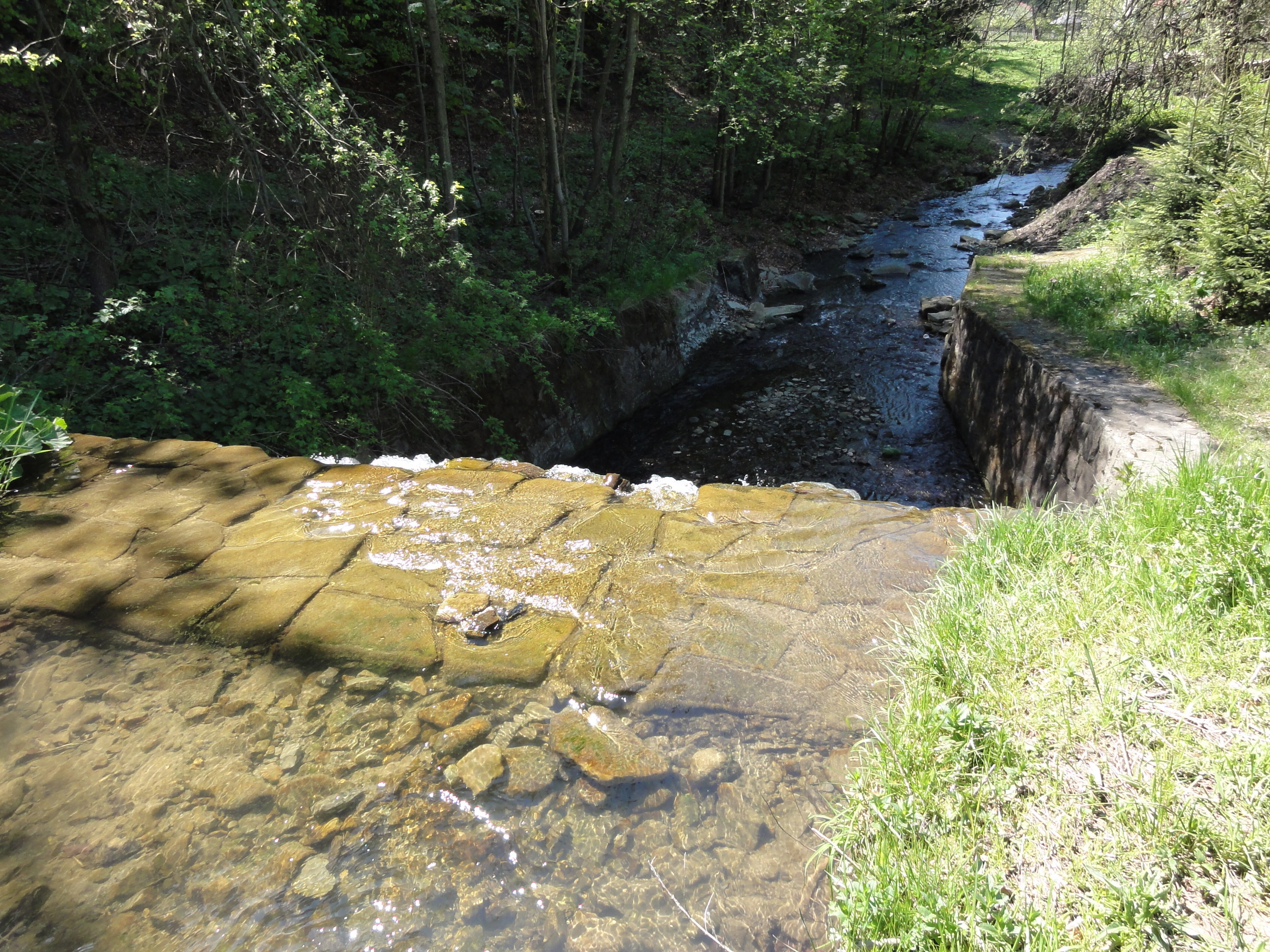 Gościejów stream in Wisła